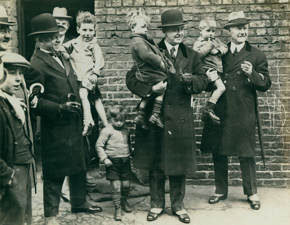 John Grantham, Sheriff of Newcastle, surveying slum clearance areas during a visit by the Minister of Health, 16 October 1925 (TWAM ref. DF.GRA/1/4). The Minister, Neville Chamberlain MP, is not pictured in this image. These images belong to a series of albums documenting John Grantham’s service to the City of Newcastle upon Tyne as its Sheriff 1924-1925 and its Lord Mayor 1936-1937. John Grantham was born in Blyth in 1877 and became a cinema proprietor in Newcastle. He was elected to the City Council in 1912 and became an alderman in 1932. The albums give us an interesting insight into the duties of Lord Mayor and Sheriff as well as a fascinating picture of the times. 2016 is the 800th anniversary of the creation of Newcastle's Mayoralty and Burgesses. (Copyright) We're happy for you to share these digital images within the spirit of The Commons. Please cite 'Tyne & Wear Archives & Museums' when reusing. Certain restrictions on high quality reproductions and commercial use of the original physical version apply though; if you're unsure please